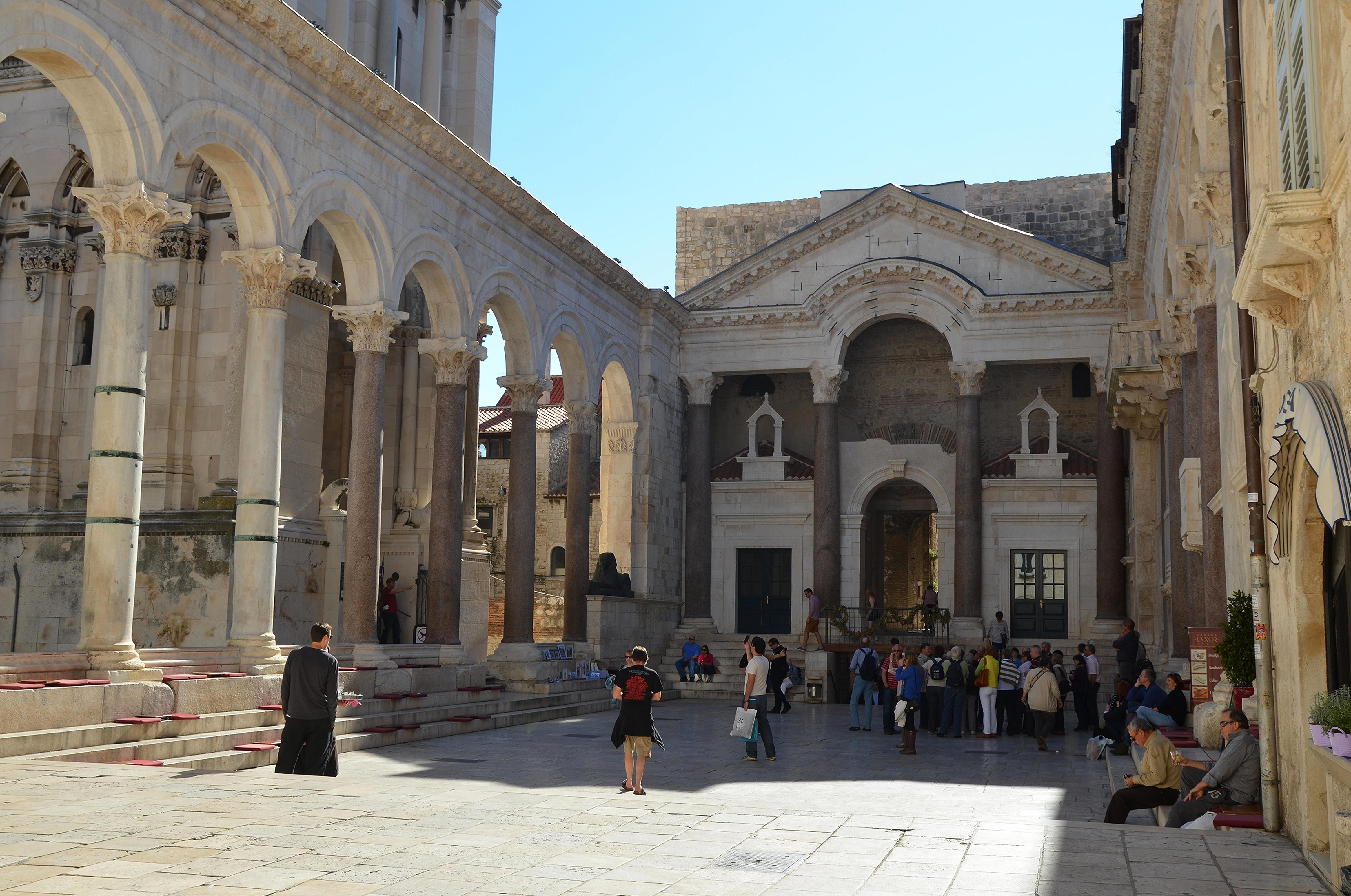 The Peristyle is the heart of Diocletian's Palace, allowing access to Diocletian's private quarters, the mausoleum, and the temples, and providing a large space in which subjects of Diocletian could worship the emperor as a god. The Peristyle is grand and spacious. One wall is an assortment of architectural styles and materials. Smooth Egyptian columns - each of a different type of stone - that are original to Diocletian's Palace once supported an open arcade. Later, they were incorporated into the walls of medieval houses.